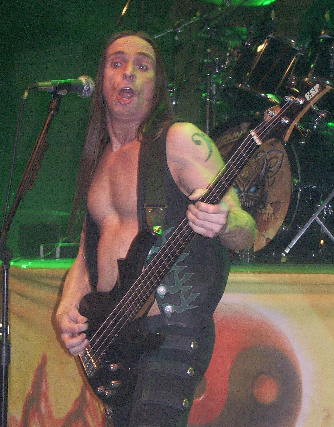 Dirk Schlächter performing live with Gamma Ray at Shepherds Bush Empire in London